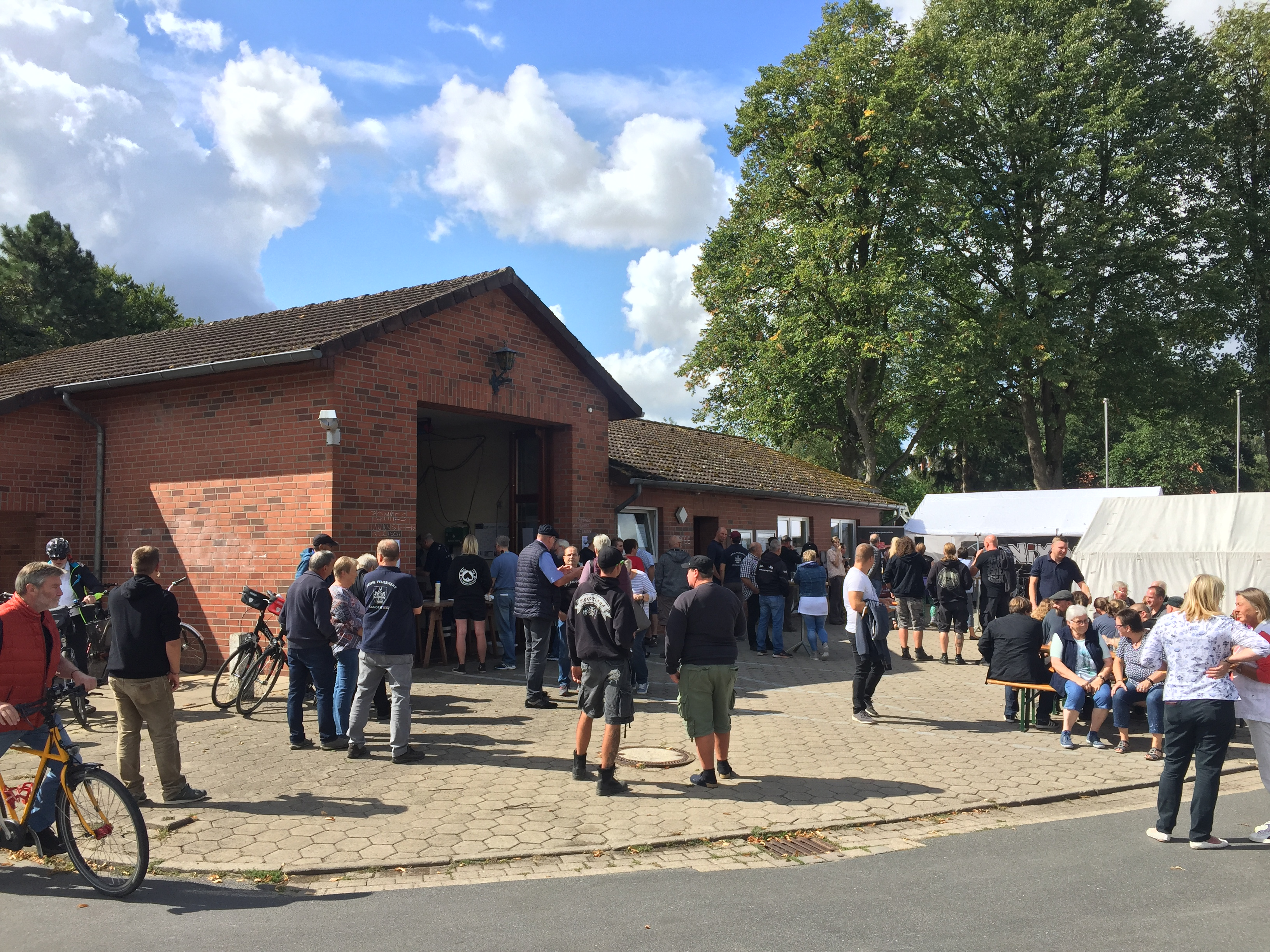 Village festival on the occasion of the Winsener bicycle concerts at the fire station in Sangenstedt on 26th August 2018